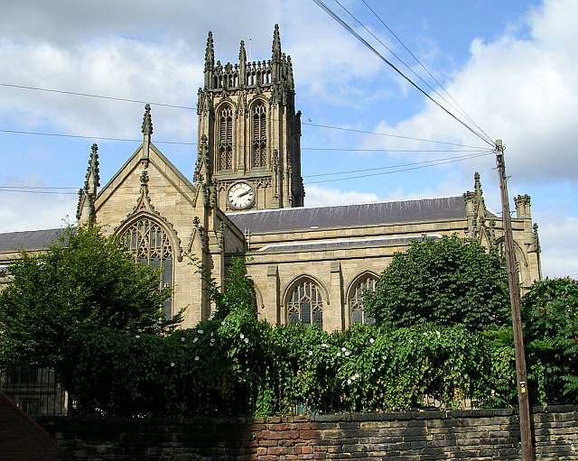 Leeds Parish Church viewed from Calls